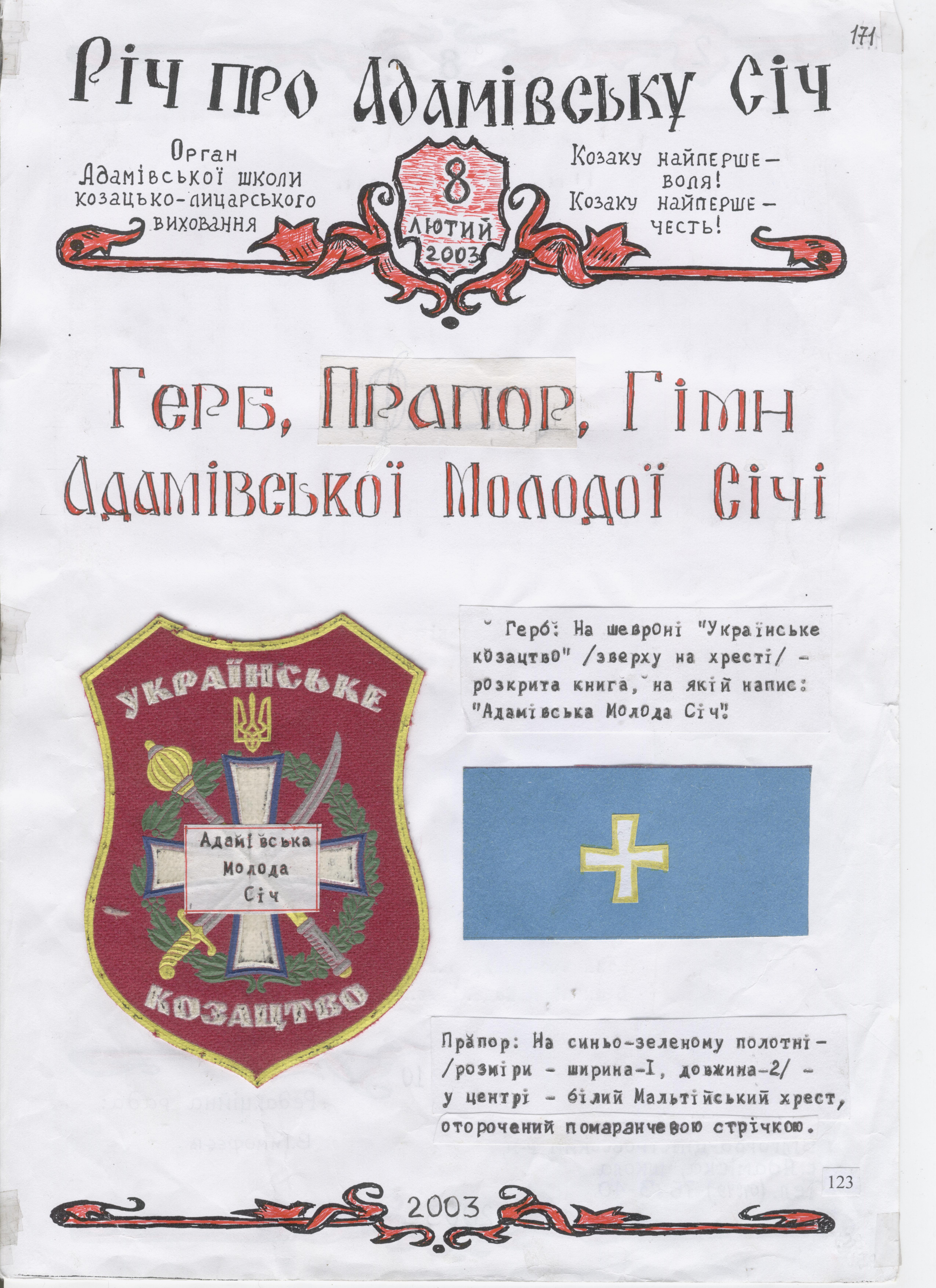 Герб, Прапор, Гімн Адамівської Молодої Січі.